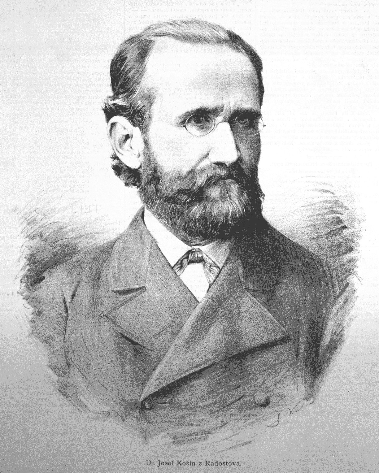 Portrait of Josef Košín z Radostova (1832-1911), Czech writer, author and collector of fairy-tales